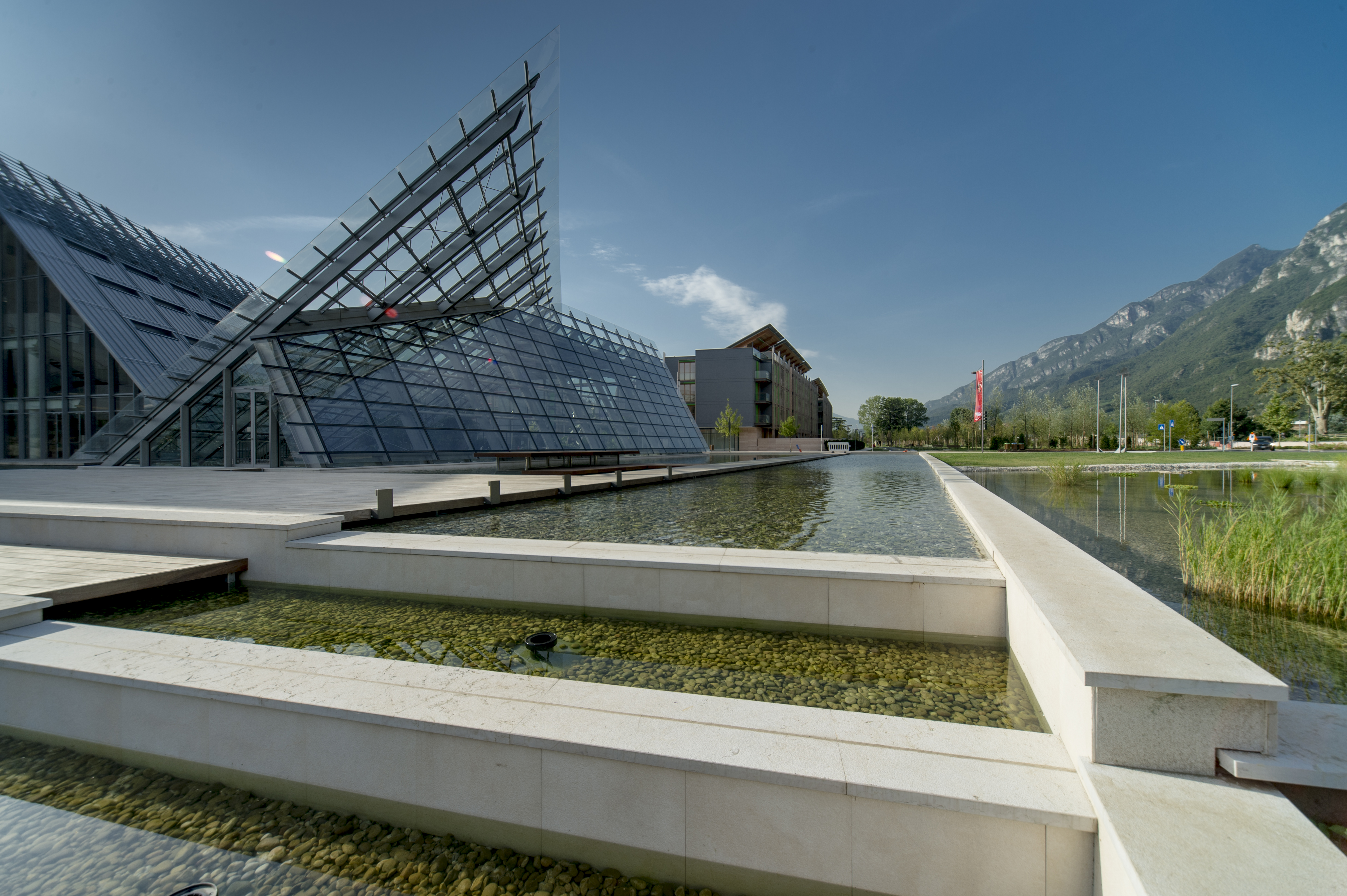 Exterior of MUSE - Science Museum in Trento.